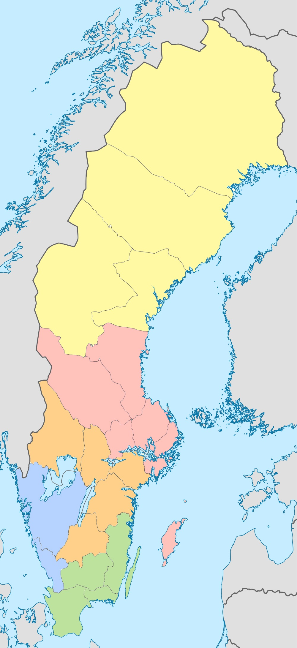 Areas of responsibility of the five Säkerhetspolisen units in Sweden